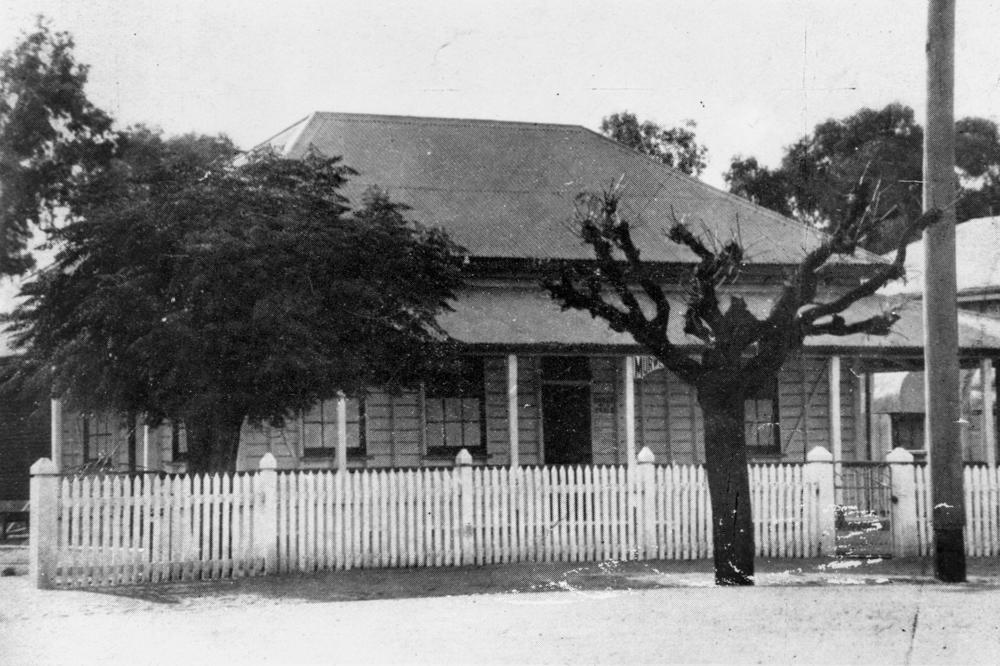 Murweh Shire Council Chambers, 1933. Charleville is the largest town in South West Queensland and has a population of approximately 3300 people. It is a rich pastoral area and was first explored by Edmund Kennedy in 1847. Charleville was named by Surveyor W. Tully for his hometown in Ireland. Cobb and Co established their largest and longest running coach making factory in Charleville in 1886 and the railway line was connected from Brisbane in 1888. Charleville was one of the first airports used by Qantas to fly paying passengers to Longreach in 1922. It is also home to the Royal Flying Doctor Service and the Charleville School of the Air.